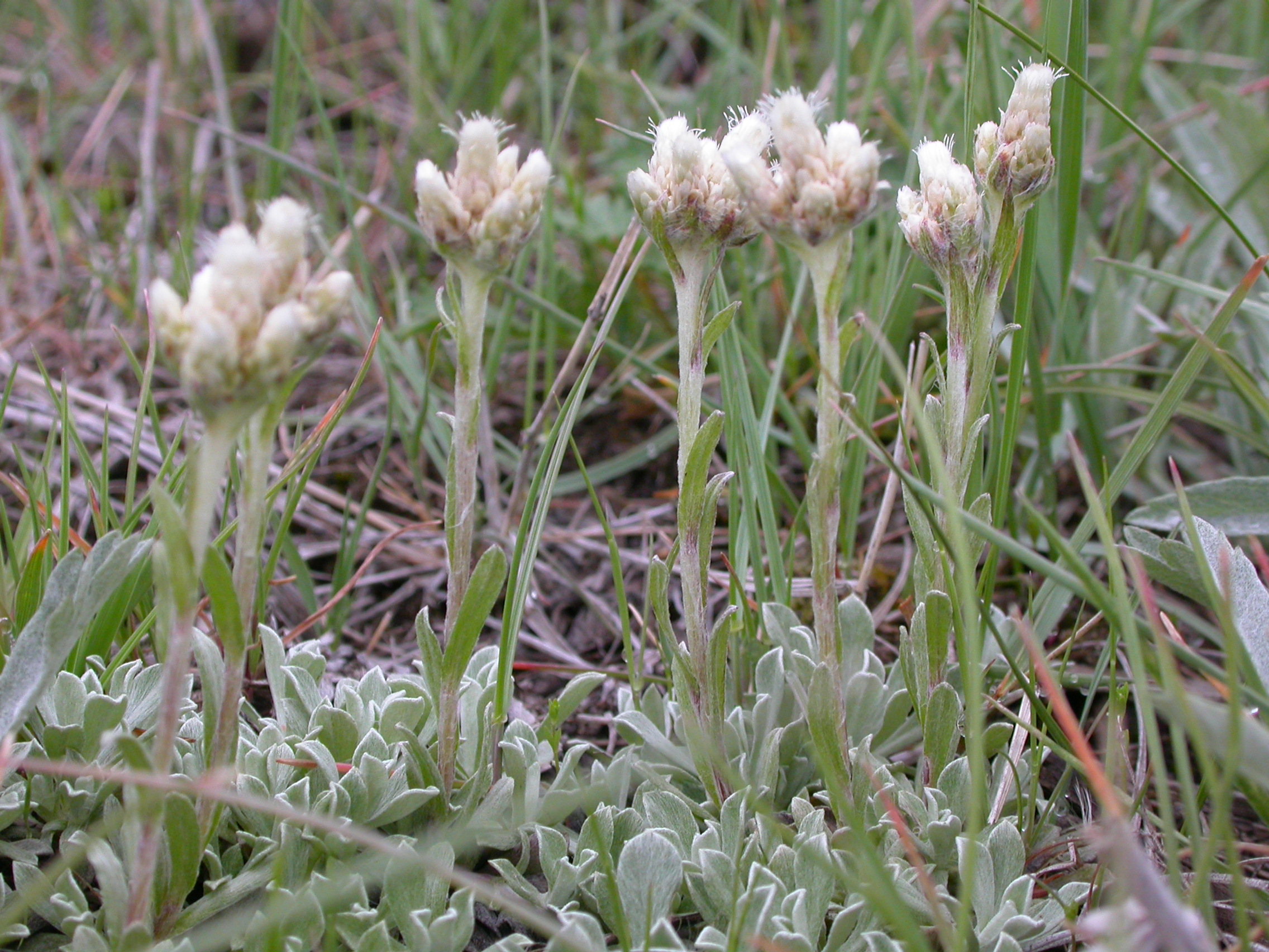 This early summer flowering and mat-forming herb can occasionally produced flowering heads surrounded by pink bracts, a form that is referred to as Antennaria rosea, rosy pussytoes